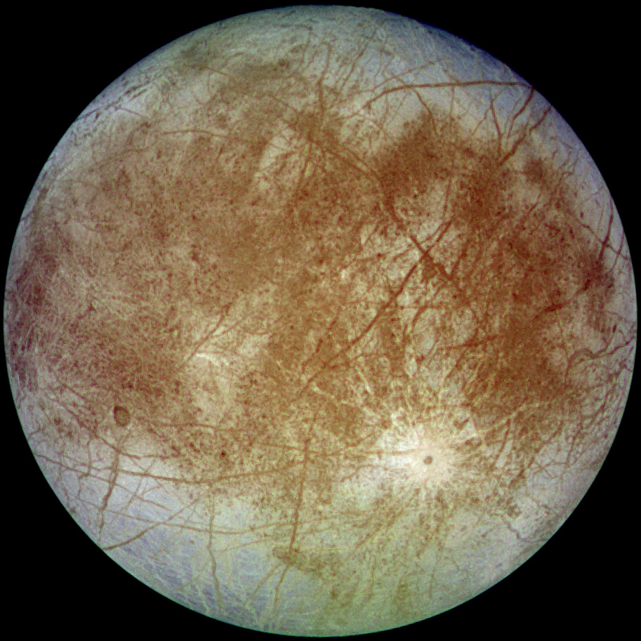 This image shows a view of the trailing hemisphere of Jupiter's ice-covered satellite, Europa, in approximate natural color. Long, dark lines are fractures in the crust, some of which are more than 3,000 kilometers (1,850 miles) long. The bright feature containing a central dark spot in the lower third of the image is a young impact crater some 50 kilometers (31 miles) in diameter. This crater has been provisionally named "Pwyll" for the Celtic god of the underworld. Europa is about 3,160 kilometers (1,950 miles) in diameter, or about the size of Earth's moon. This image was taken on September 7, 1996, at a range of 677,000 kilometers (417,900 miles) by the solid state imaging television camera onboard the Galileo spacecraft during its second orbit around Jupiter. The image was processed by Deutsche Forschungsanstalt fuer Luftund Raumfahrt e.V., Berlin, Germany.